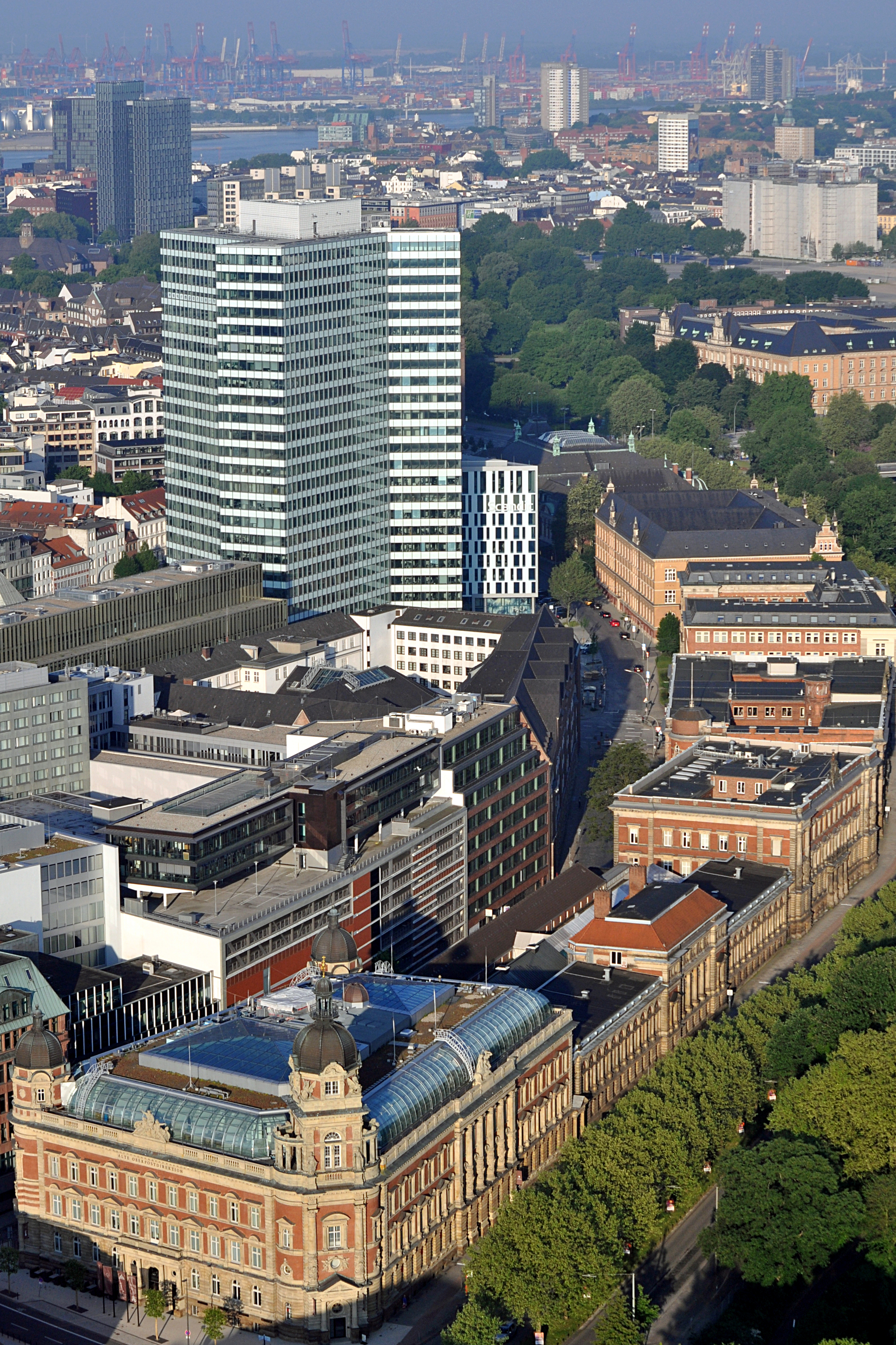 Dammtorwall street with cultural heritage monuments Alte Oberpostdirektion (foreground) and Emporio-Haus (center).